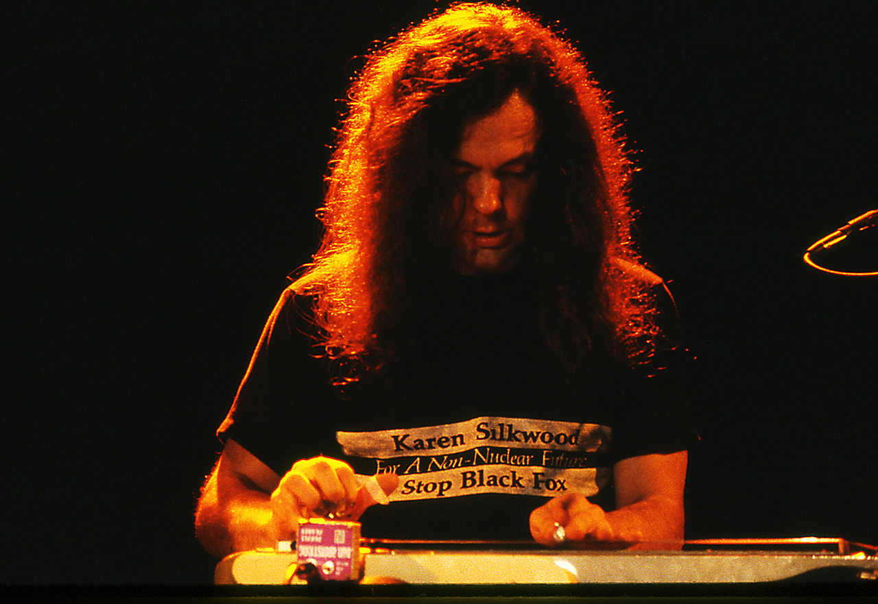 David Lindley in concert with Ry Cooder, Brisbane c.1980.